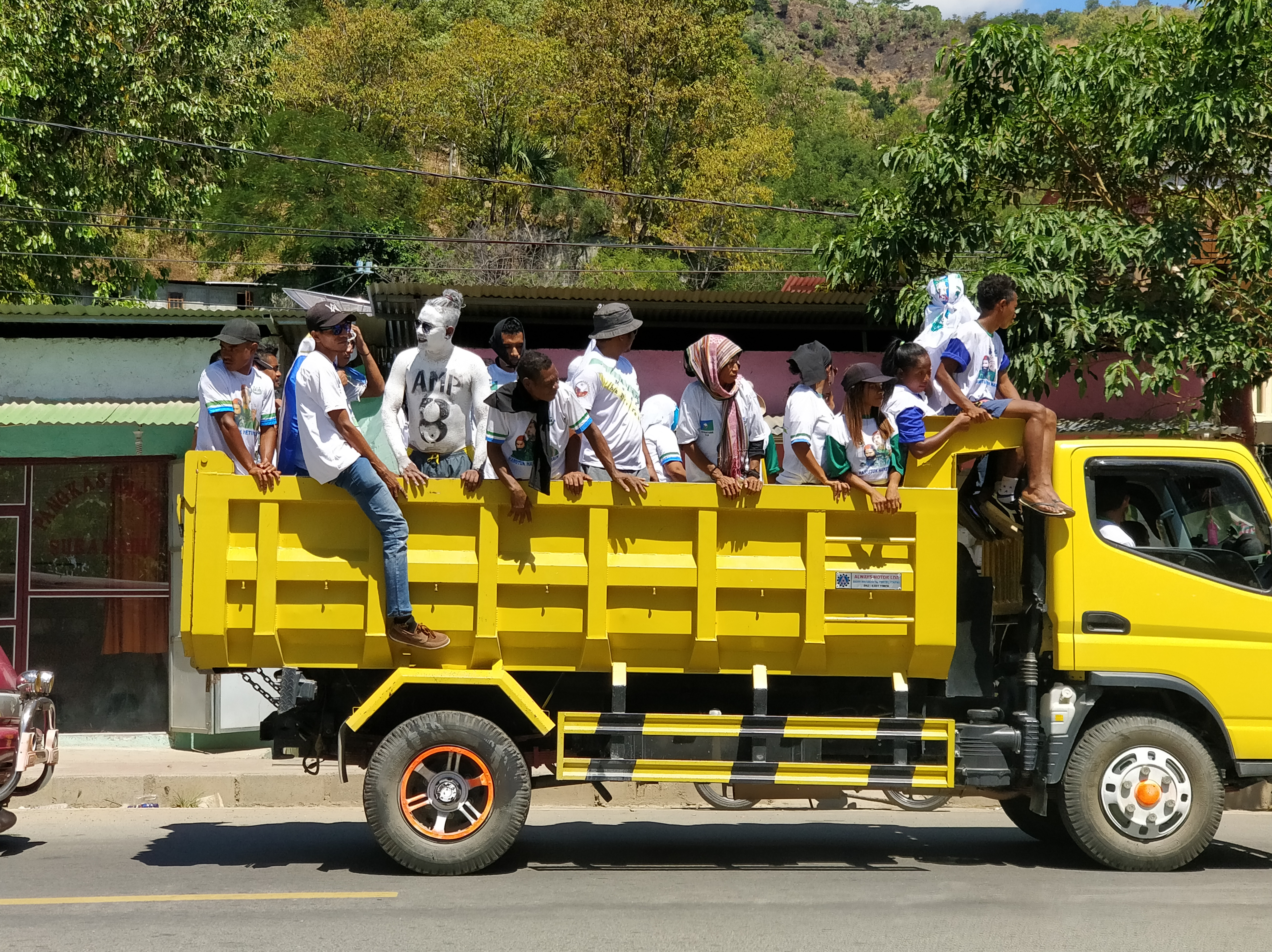 AMP supporters during rally on Balide Avenue, Dili, Timor-Leste